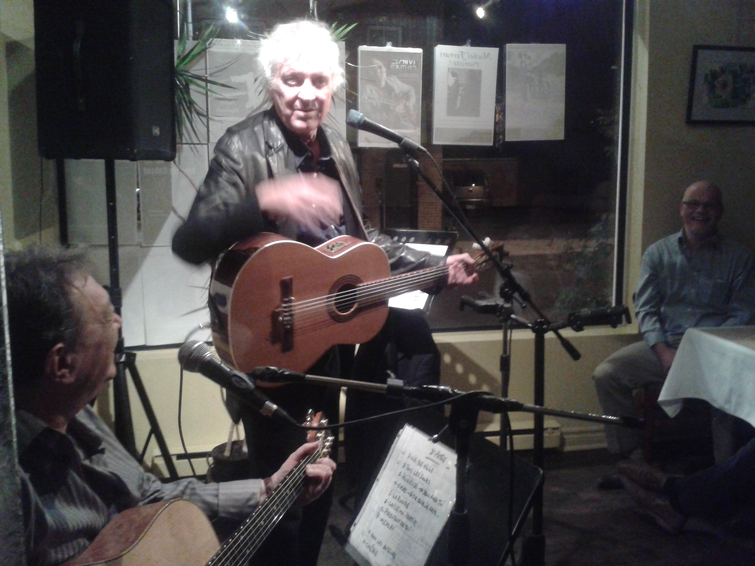 Pierre Létourneau & Michel Robidoux photographed in Montreal, Quebec, Canada inside Le Rendez-Vous Du Thé.